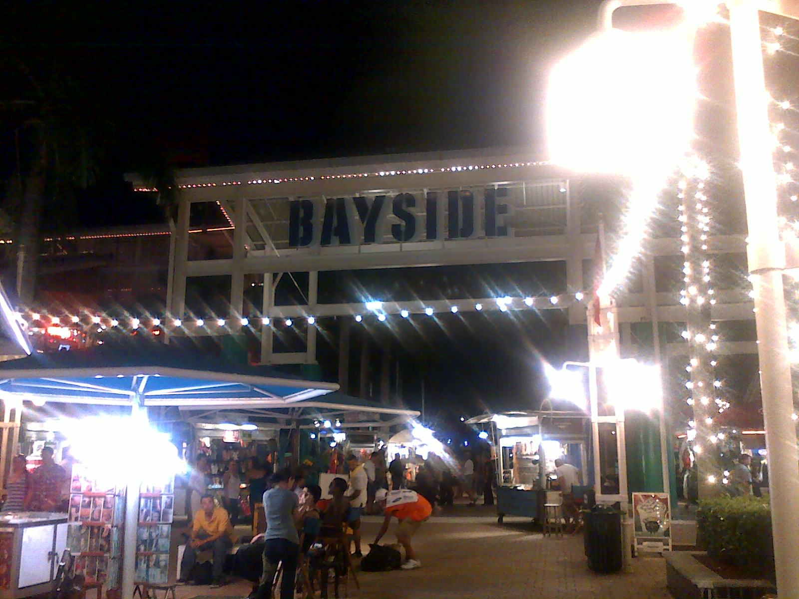 Picture of Bayside (Miami, FL) at night.